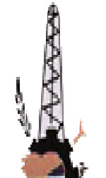 Emblem of the North Sinai Governorate.